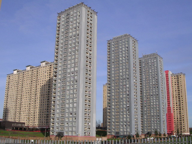 Red Road flats at Balornock. The Red Road development was approved in 1962, and comprised six, 31-storeyed tower blocks containing 720 flats, two 27-storeyed slab blocks and one three-storeyed block. They were designed by Sam Bunton & Associates for Glasgow Corporation. They were gradually demolished between 2012 and 2015.